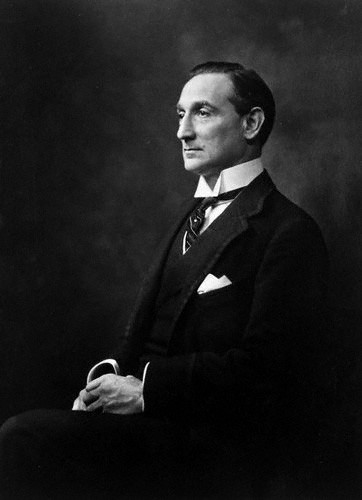 Portrait of Rufus Isaacs, 1st Marquess of Reading